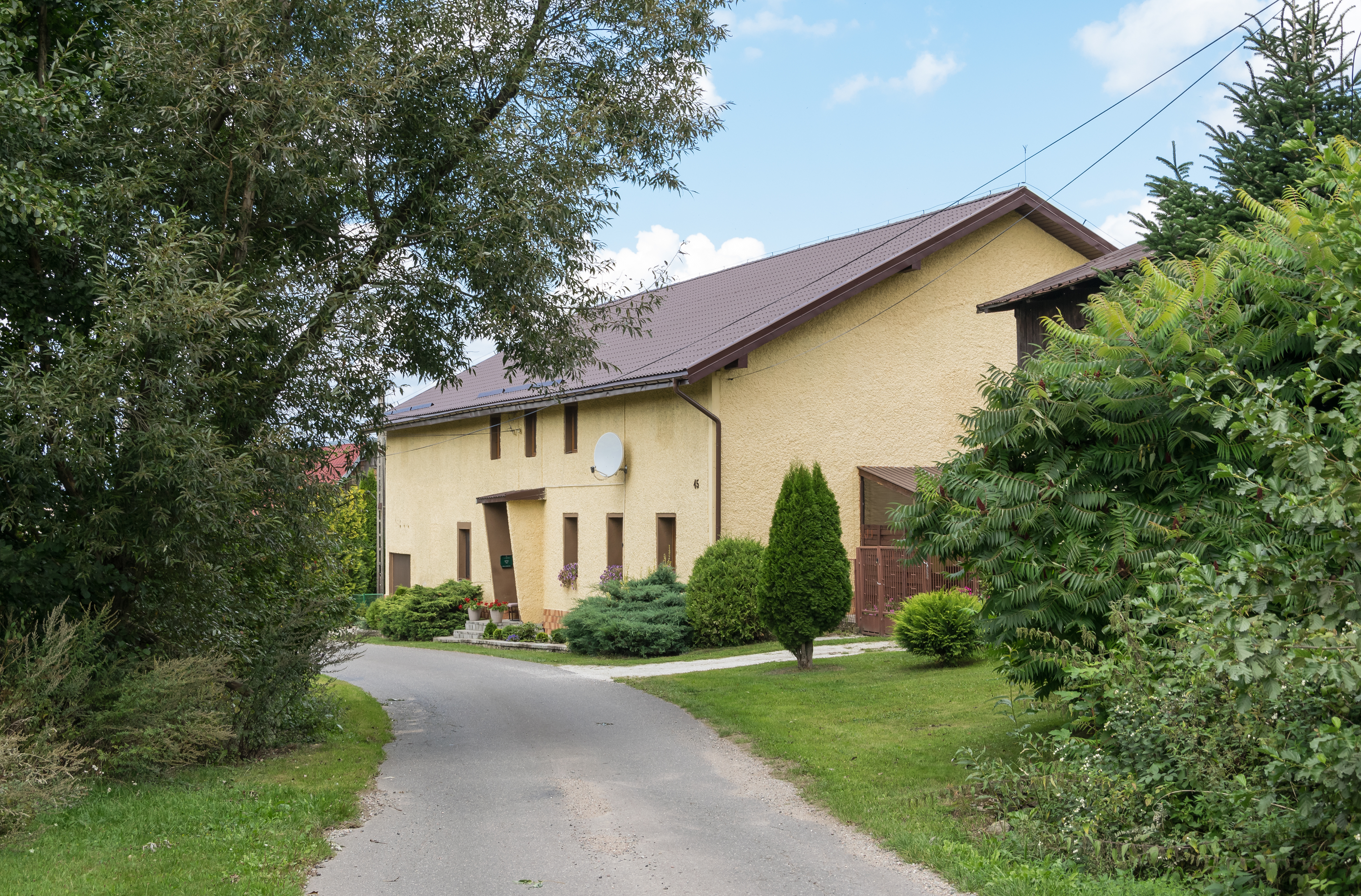 House No. 45 in Szklarnia